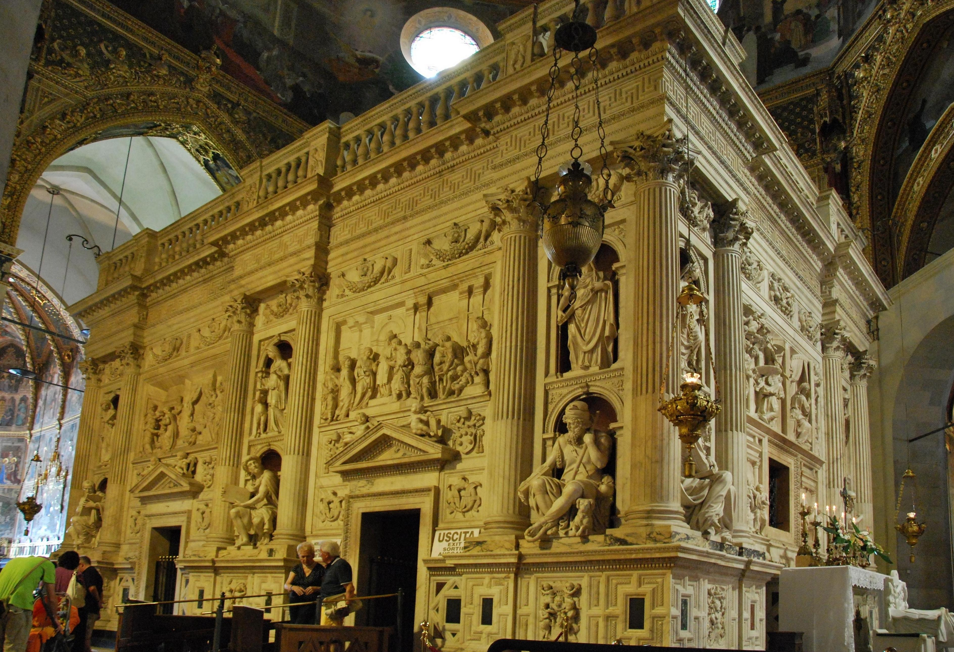 Santuario della Santa Casa in Loreto - Casa Santa